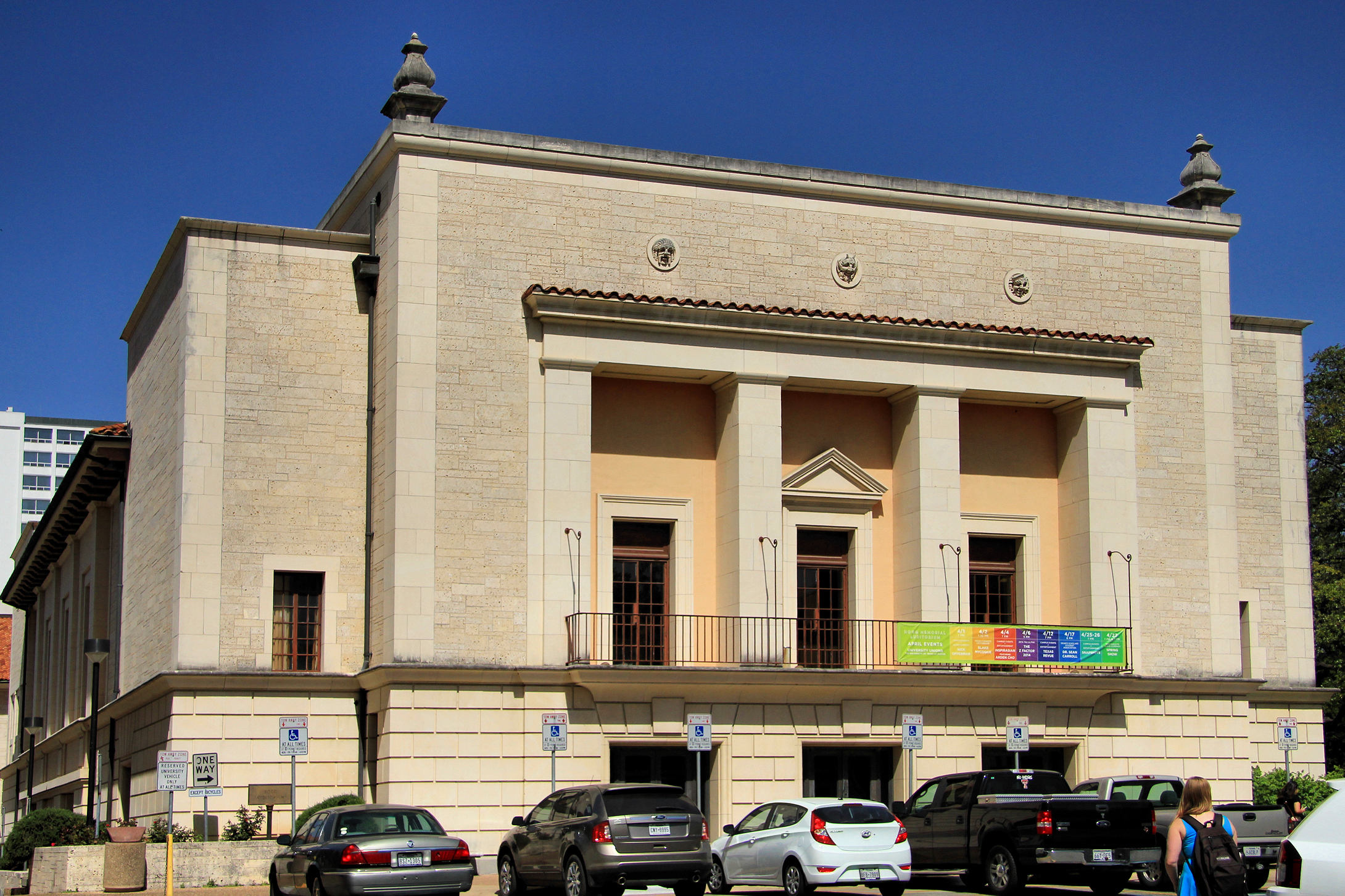 The Will C. Hogg Memorial Auditorium at the University of Texas at Austin, Austin, Texas, United States.